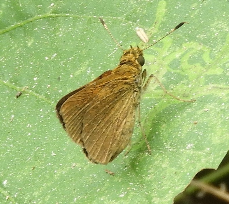 Redundant Skipper (Corticea corticea). Species of insect.